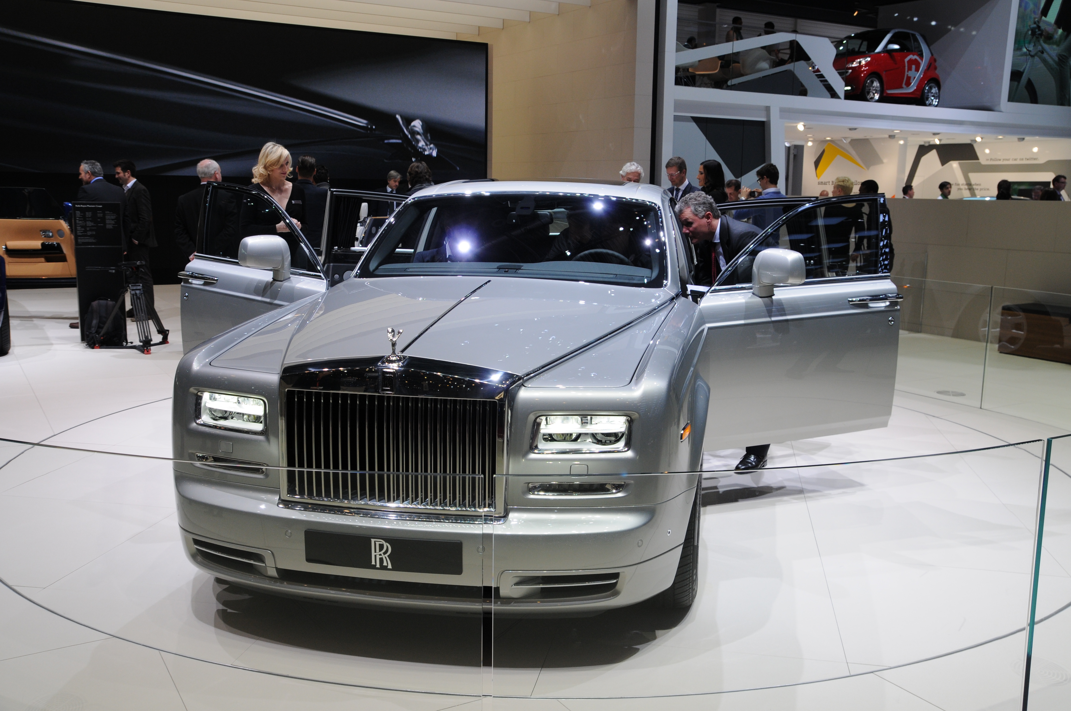 Geneva Motor Show 2012 (photos taken on the second press day)